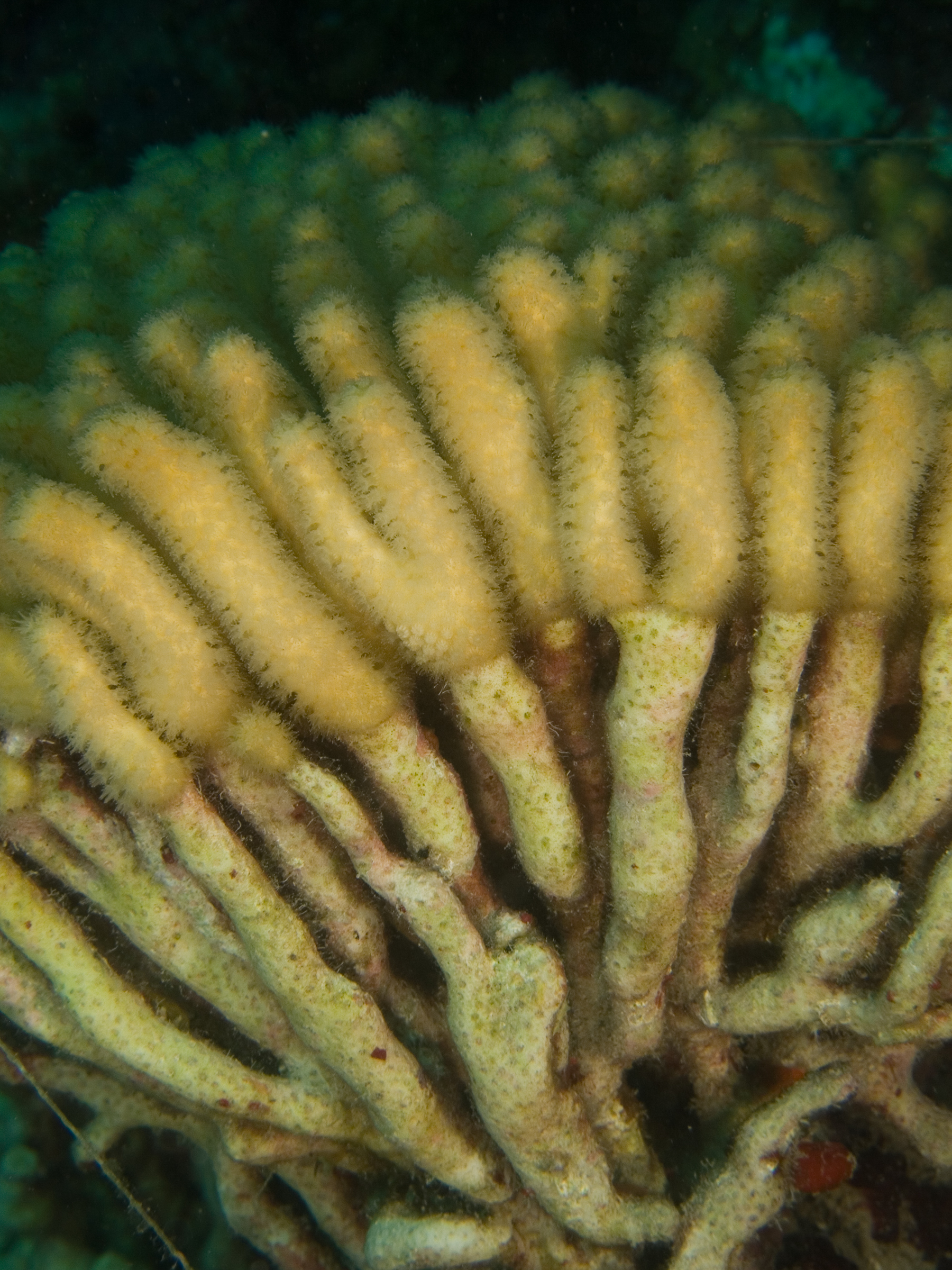 Madracis auretenra (Yellow Pencil Coral). Usually found in spherical mounds, this one was broken revealing the hard growth at the bottom made by the live polyps seen higher up.